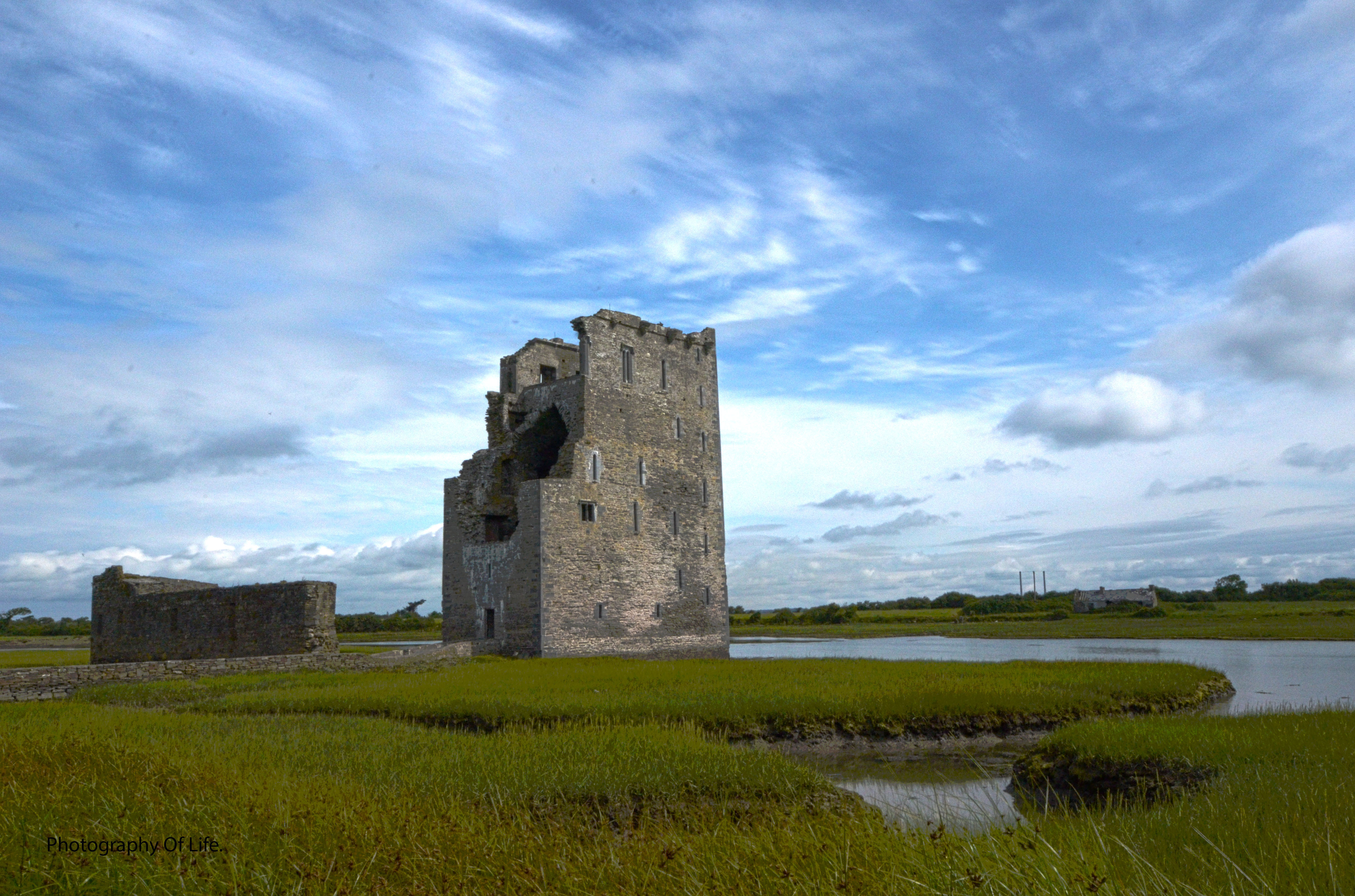 Carrigafoyle Castle in beautiful county Kerry.